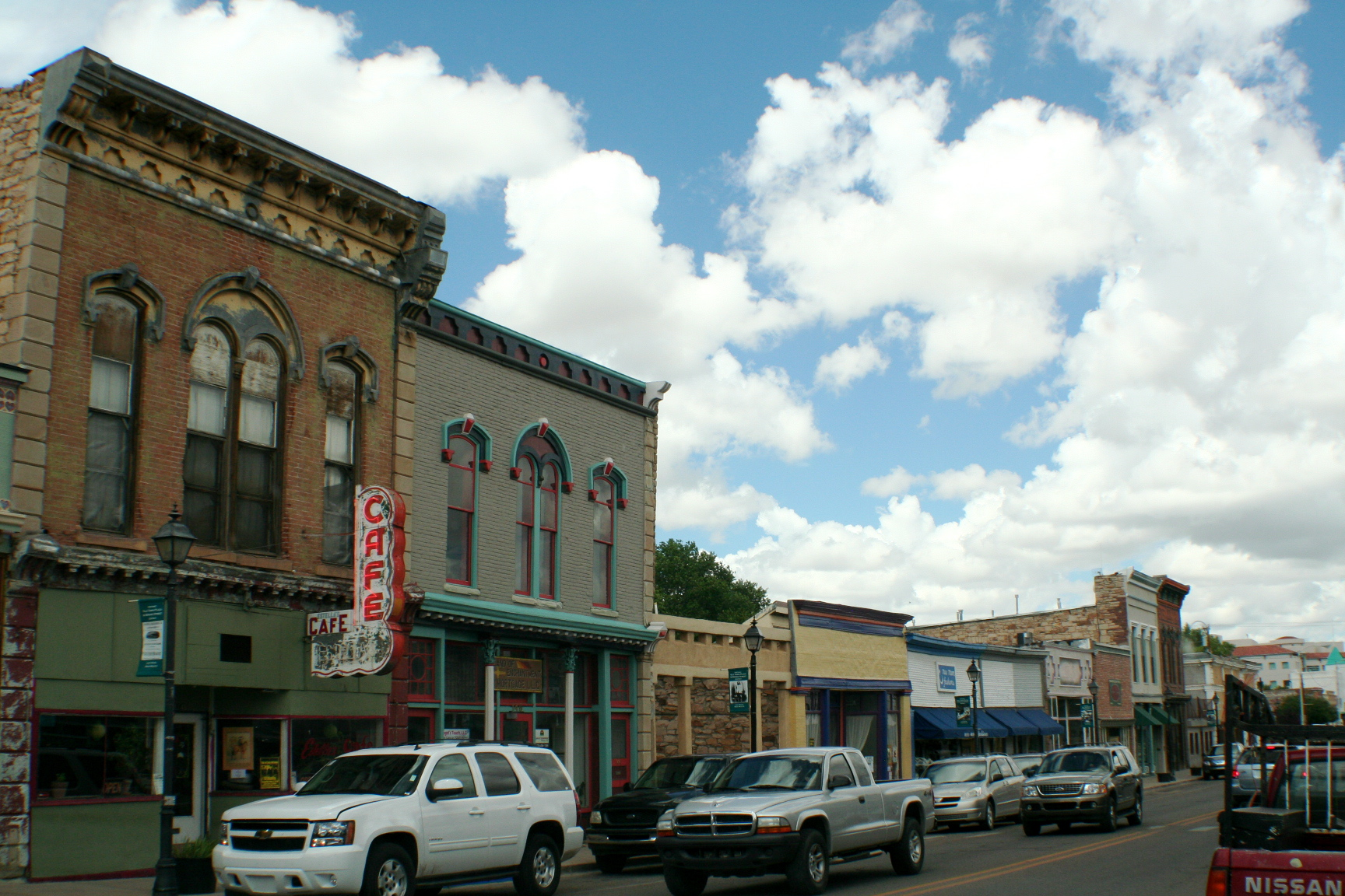 National Avenue in Downtown Las Vegas, New Mexico.